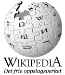 The Nynorsk version of the Nohat Wikipedia logo.